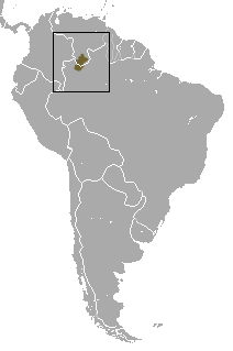 Neblina Uakari (Cacajao hosomi) range IUCN: Cacajao hosomi Boubli, da Silva, Amado, Herbk, Pontual & Farias, 2008 (old web site) (Vulnerable)